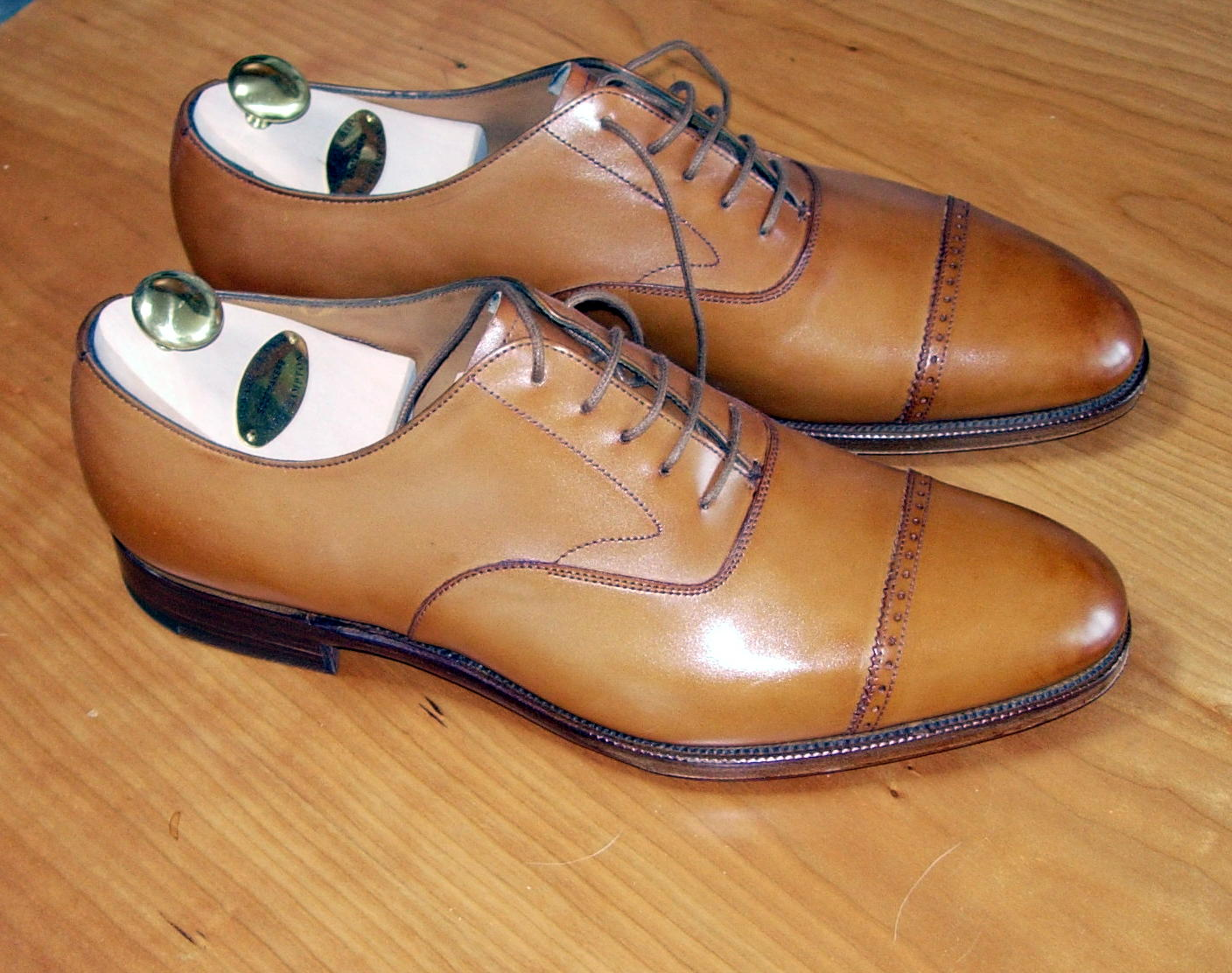 Men's acorn colored, cap toe, quarter brogue oxfords.